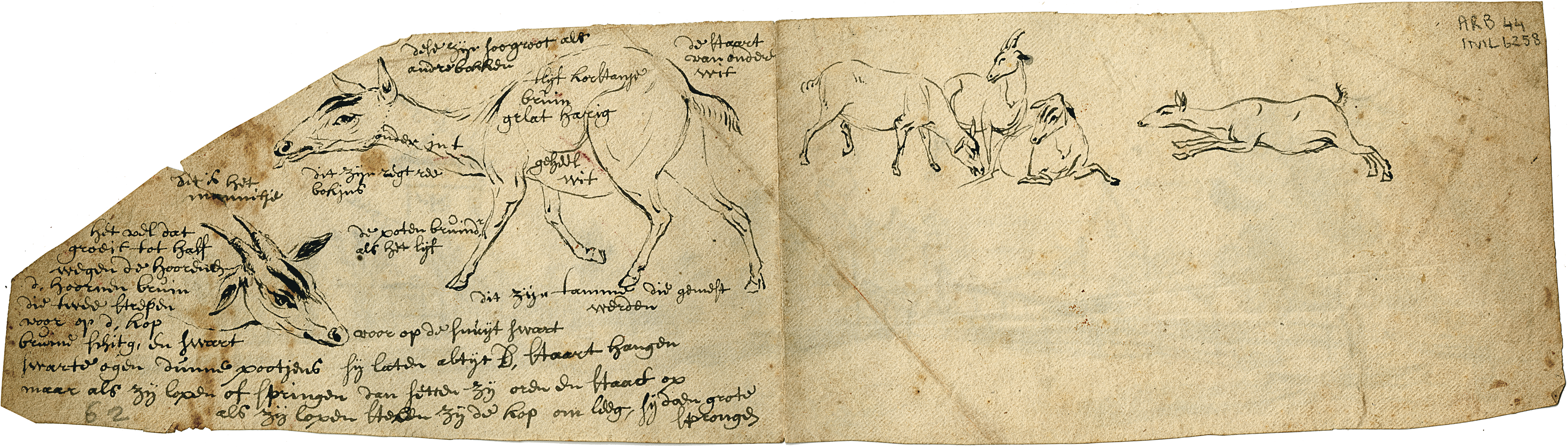 This depiction of what is probably Muntiacus muntjak muntjak or Muntiacus muntjak montanus (the Sumatran muntjac) is from a set of 27 drawings on 15 sheets that was discovered in 1986 in the National Library of South Africa. The drawings are important for presenting the earliest realistic depictions of the Khoikhoi people, the original inhabitants of the Western Cape. The artist most likely was a Dutchman, born in the 17th century, who was attached in some capacity to the Dutch East India Company and possibly en route to the Dutch East Indies or on his way back to the Netherlands when he visited the Cape. Evidence suggests that the drawings were made no later than 1713, and possibly a good deal earlier. Most of the drawings have annotations, in Dutch, which were made by another person, also unidentified, after 1730. The muntjac is a species of browsing forest deer found in Sumatra and Java. The notation on the drawing gives information about its size, color, and other features. The artist would have seen the animal in Asia. Deer; Muntiacus